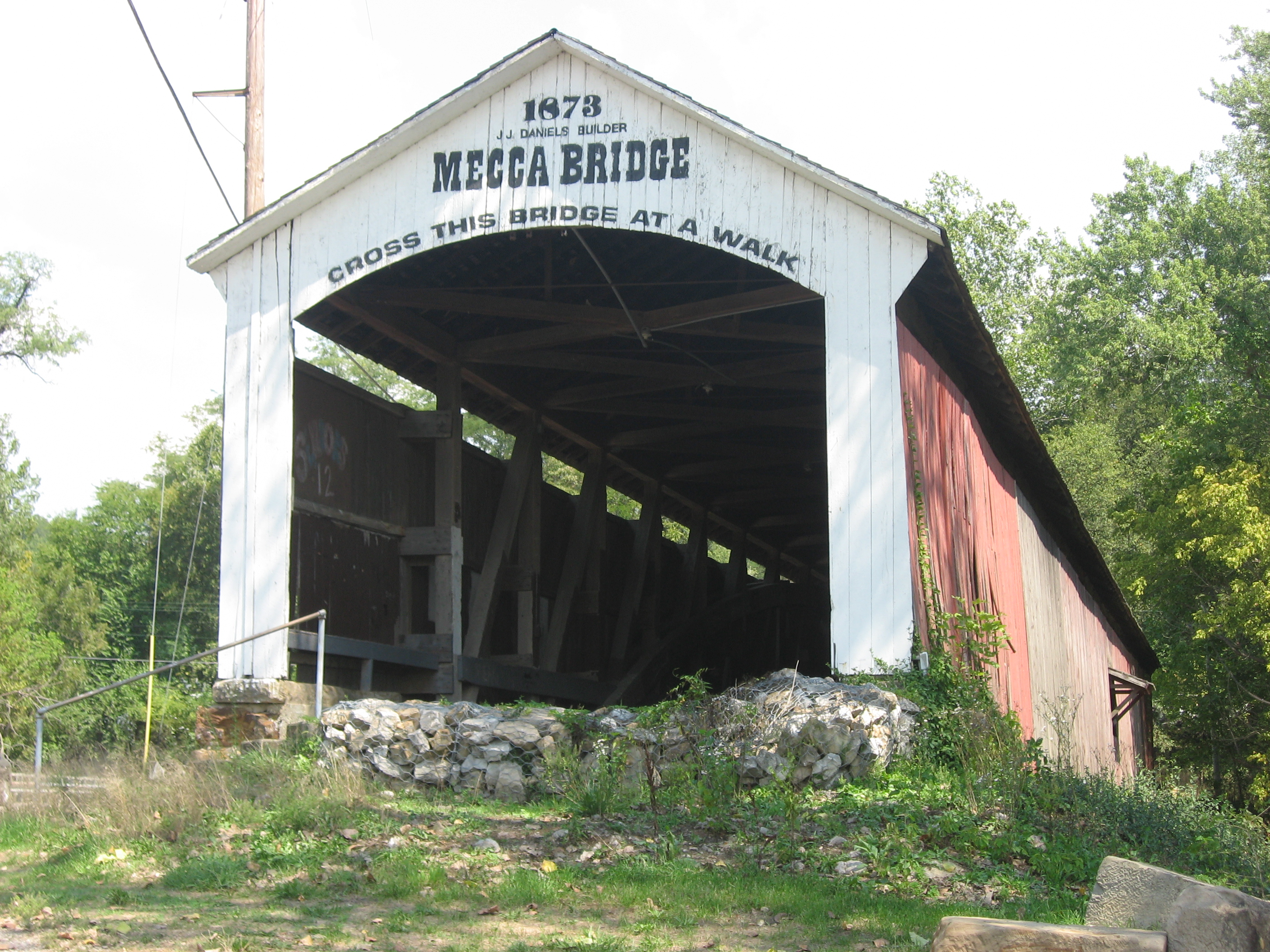 Western portal and southern side of the Mecca Covered Bridge, which spans Big Raccoon Creek next to Wabash Street in Mecca, Indiana, United States. Built in 1873, it is listed on the National Register of Historic Places.